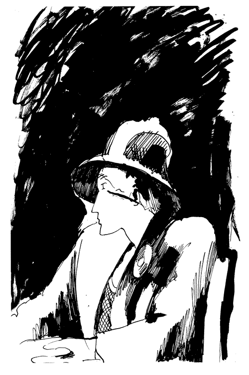 Lottie Marsau - portrait by Peti Buchel, ink drawing.